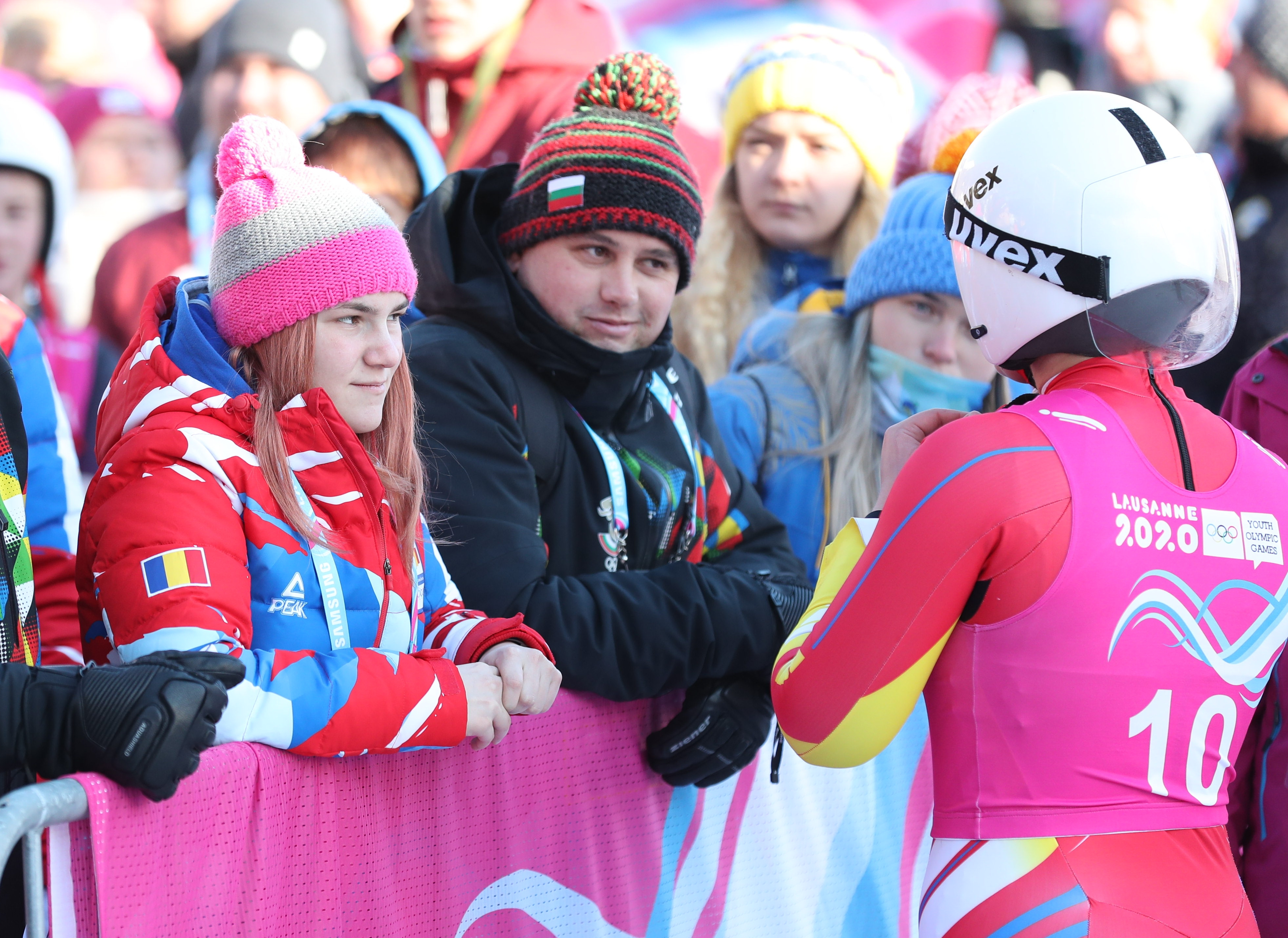 2nd run Luge Women's Single at the 2020 Winter Youth Olympics in Lausanne